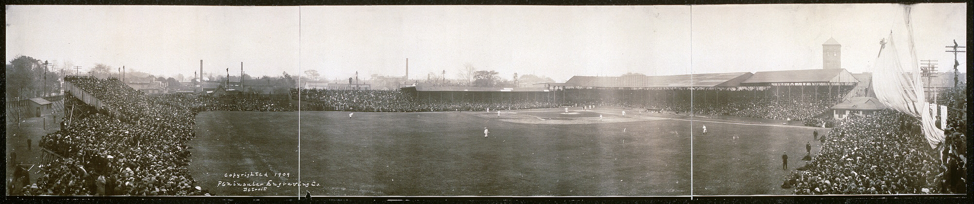 World Series baseball game at Bennett Park, Oct. 11, 1909